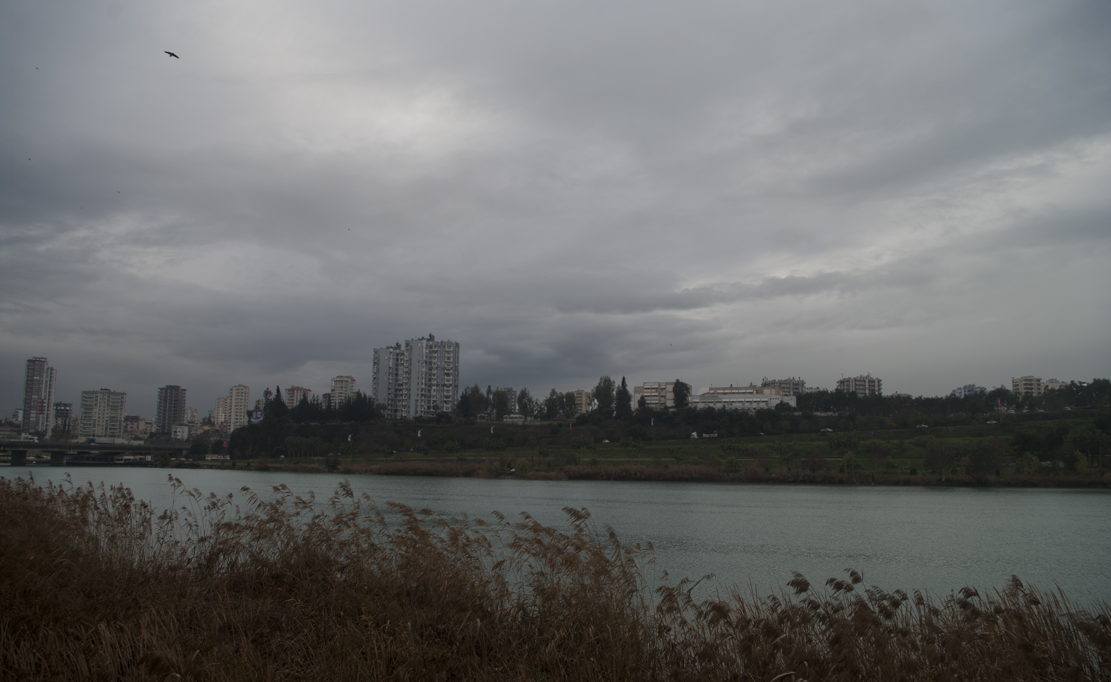 View to Adana Vocational High School of Çukurova University from Yaşar Kemal Jogging park.